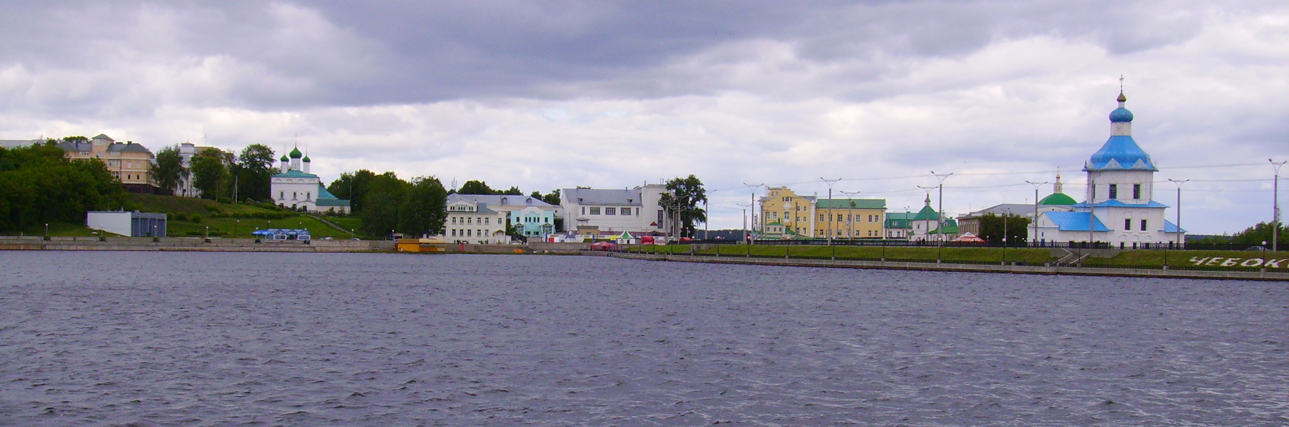 The Artificial Bay in downtown Чӑвашла: Шупашкар кӳлмекĕ